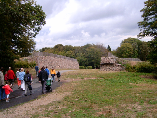 Bibracte muur Wall of Bibracte